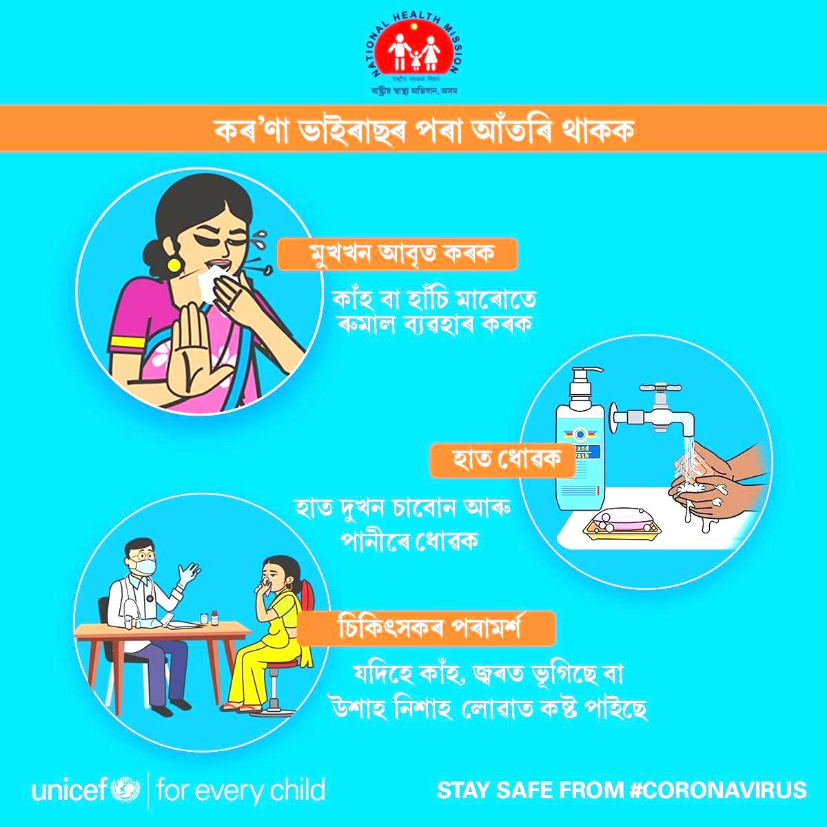 Assam Government coronavirus health advisory poster in Assamese অসমীয়া: অসম চৰকাৰৰ অসমীয়া ভাষাত ক'ৰ'ণা ভাইৰাছৰ স্বাস্থ্য উপদেশ